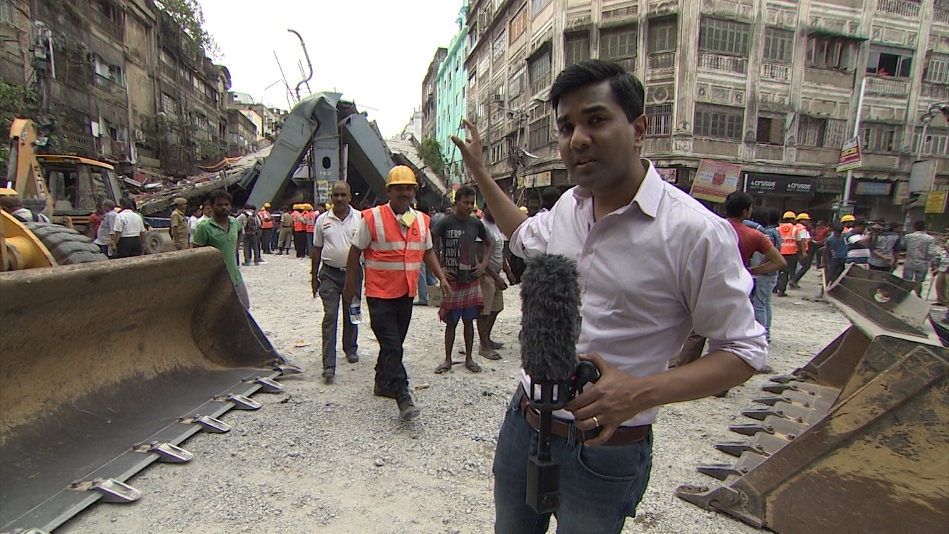 ravi agrawal reporting from kolkata bridge collapse in 2016